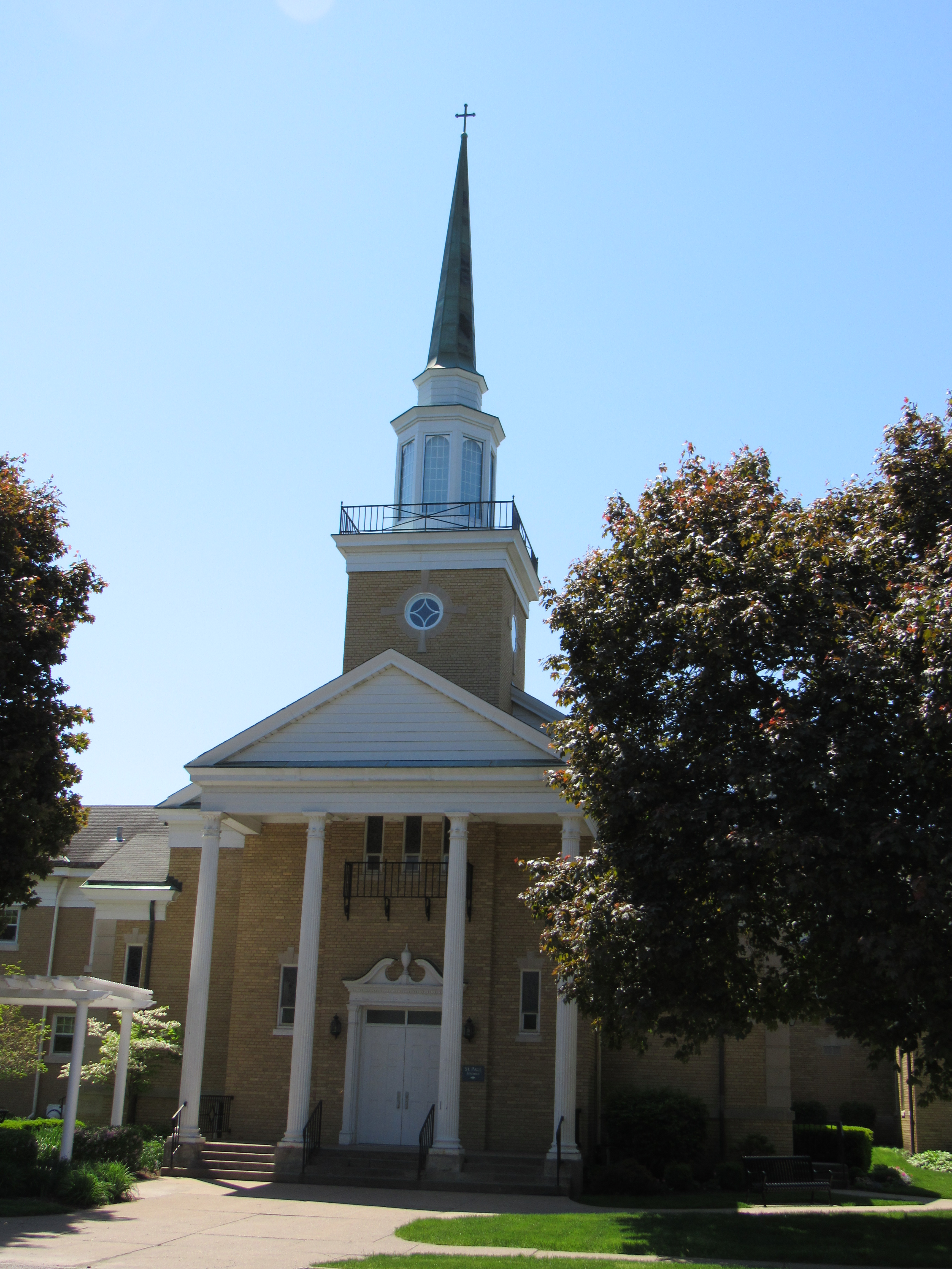 St. Paul Lutheran Church located in Davenport, Iowa